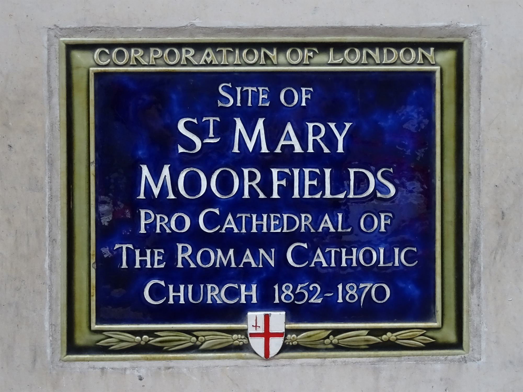 Blue plaque erected by Corporation of London at junction of Blomfield Street and Finsbury Circus, City of London EC2